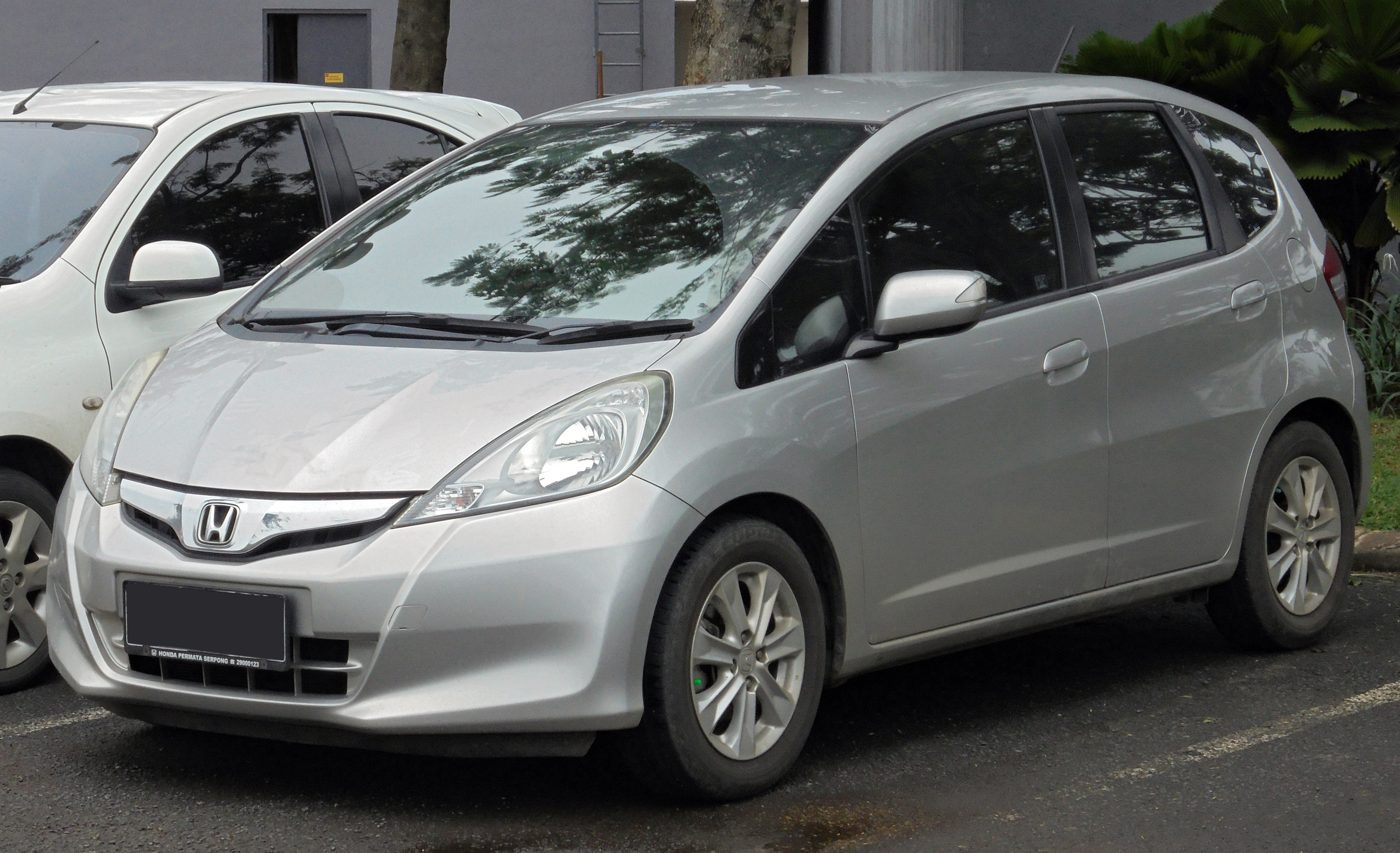 2013 Honda Jazz 1.5 S hatchback (GE8) photographed in South Tangerang, Banten, Indonesia.